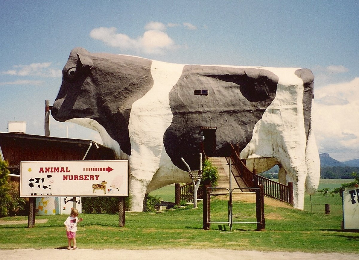 Big Bull, near Wauchope, NSW, Australia. Child is G.R. Box, aged 35 months